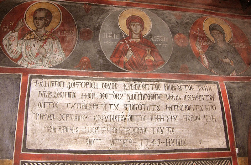 Inscription in the Assumption of Mary Church in Zeugostasio